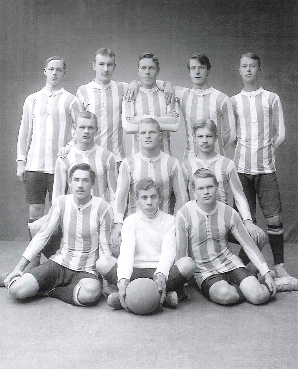 HJK Helsinki squad that won Finnish championship in 1911. Bottom row (from left): Jalmari Holopainen, Niilo Tammisalo, Eino Soinio Middle row (from left): Pauli Ahlgren, Kaarlo Soinio, Viljo Lietola Top row (from left): Lauri Tanner, Arvo Eerikäinen, Artturi Nyyssönen, Armas Tolamaa, Tuure Tornivuori